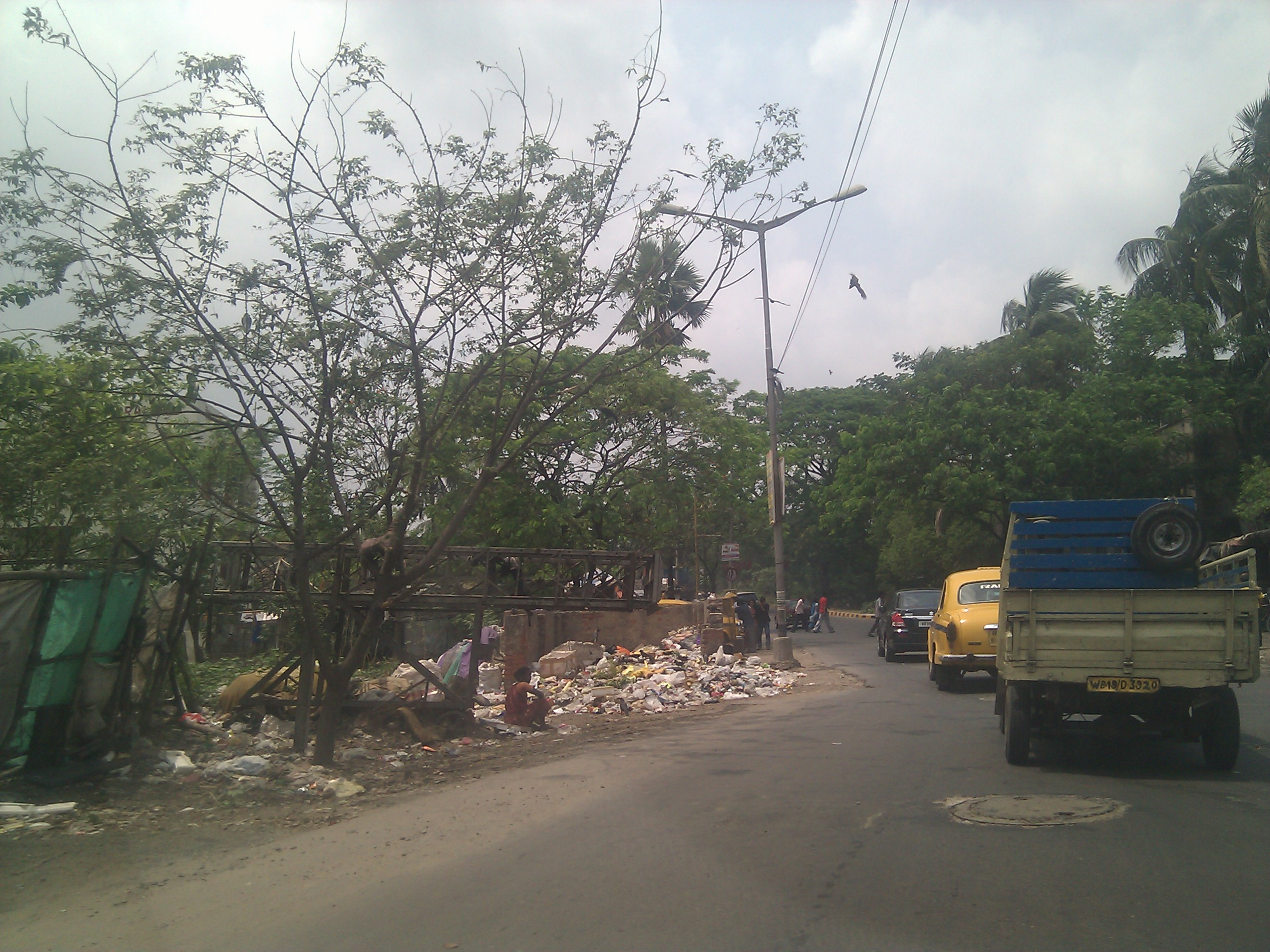 Garbage dumping ground near Jadavpur Police Station, Kolkata